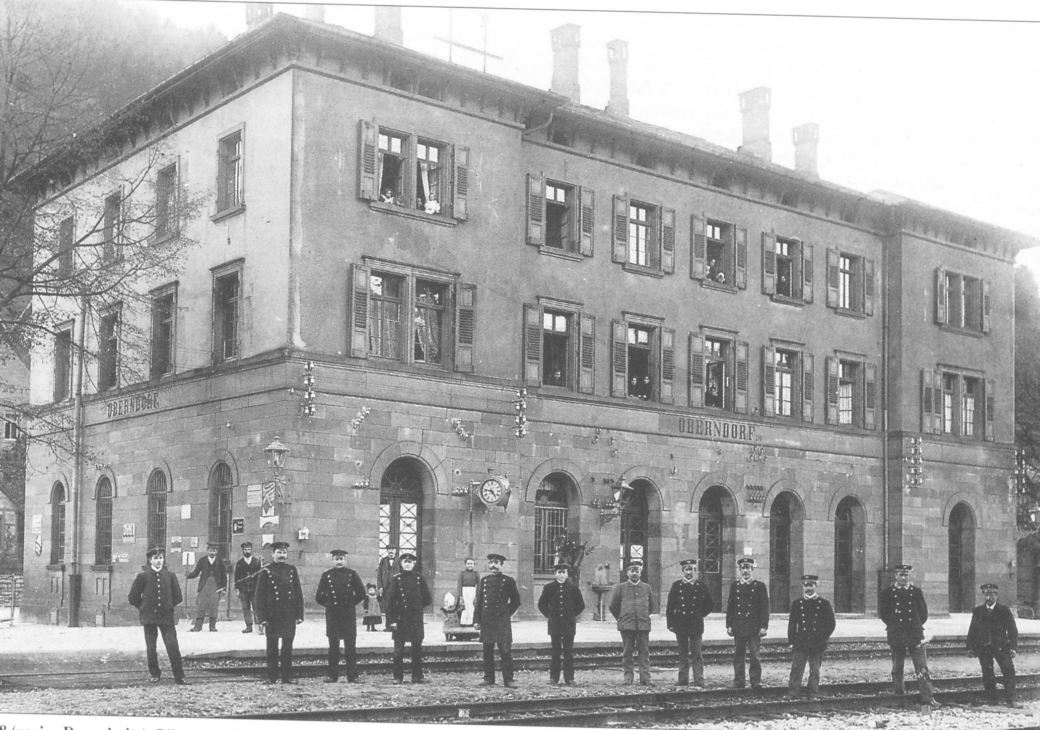 train station of Oberndorf on Neckar, Germany